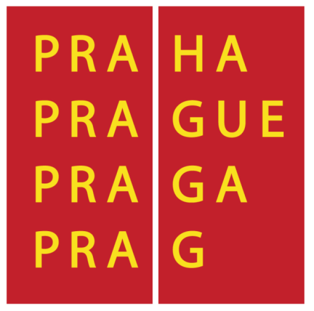 Logo Prague tourism